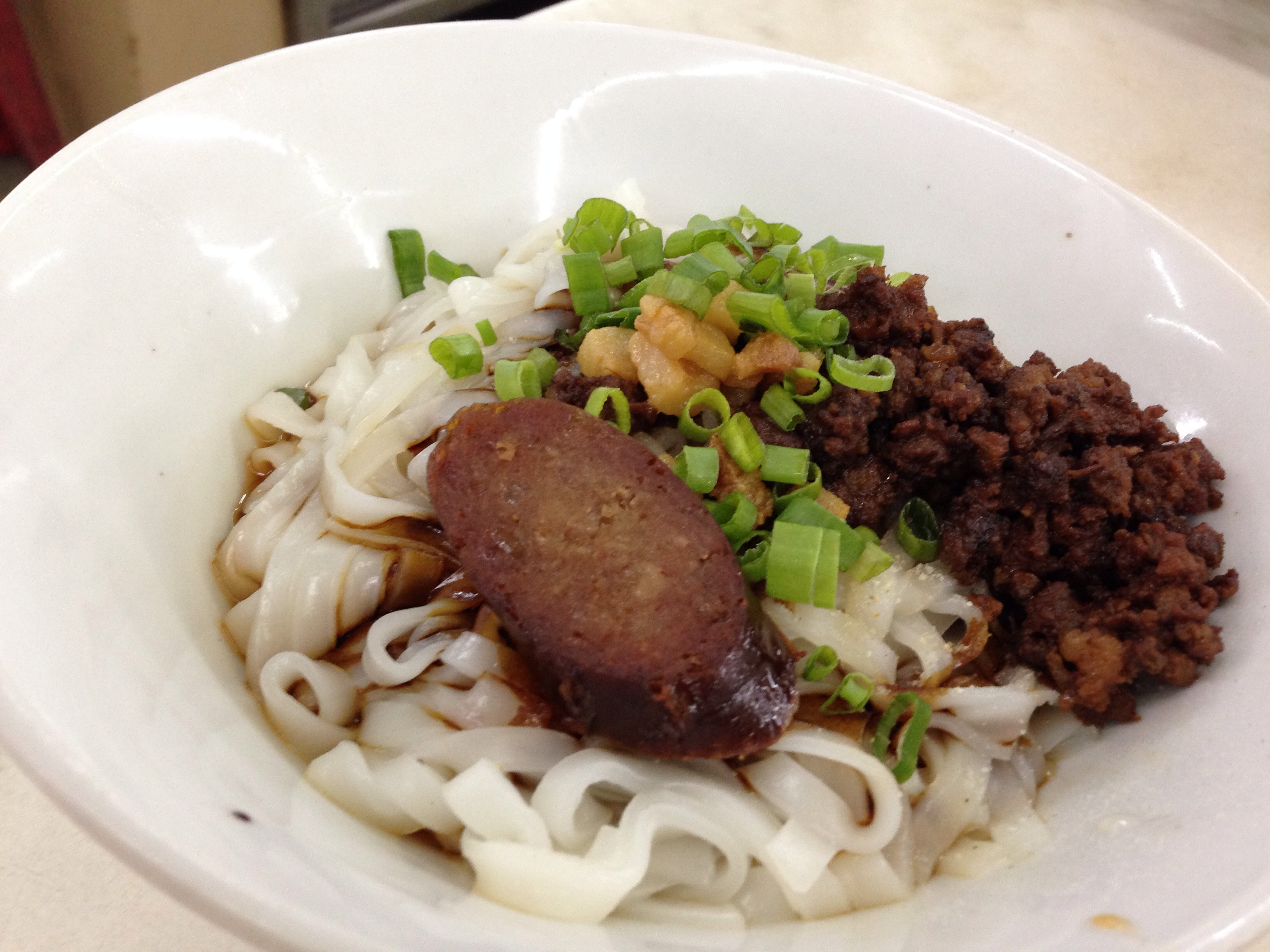 dry pork ball noodle in KL